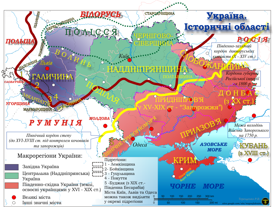 Historical regions of Ukraine